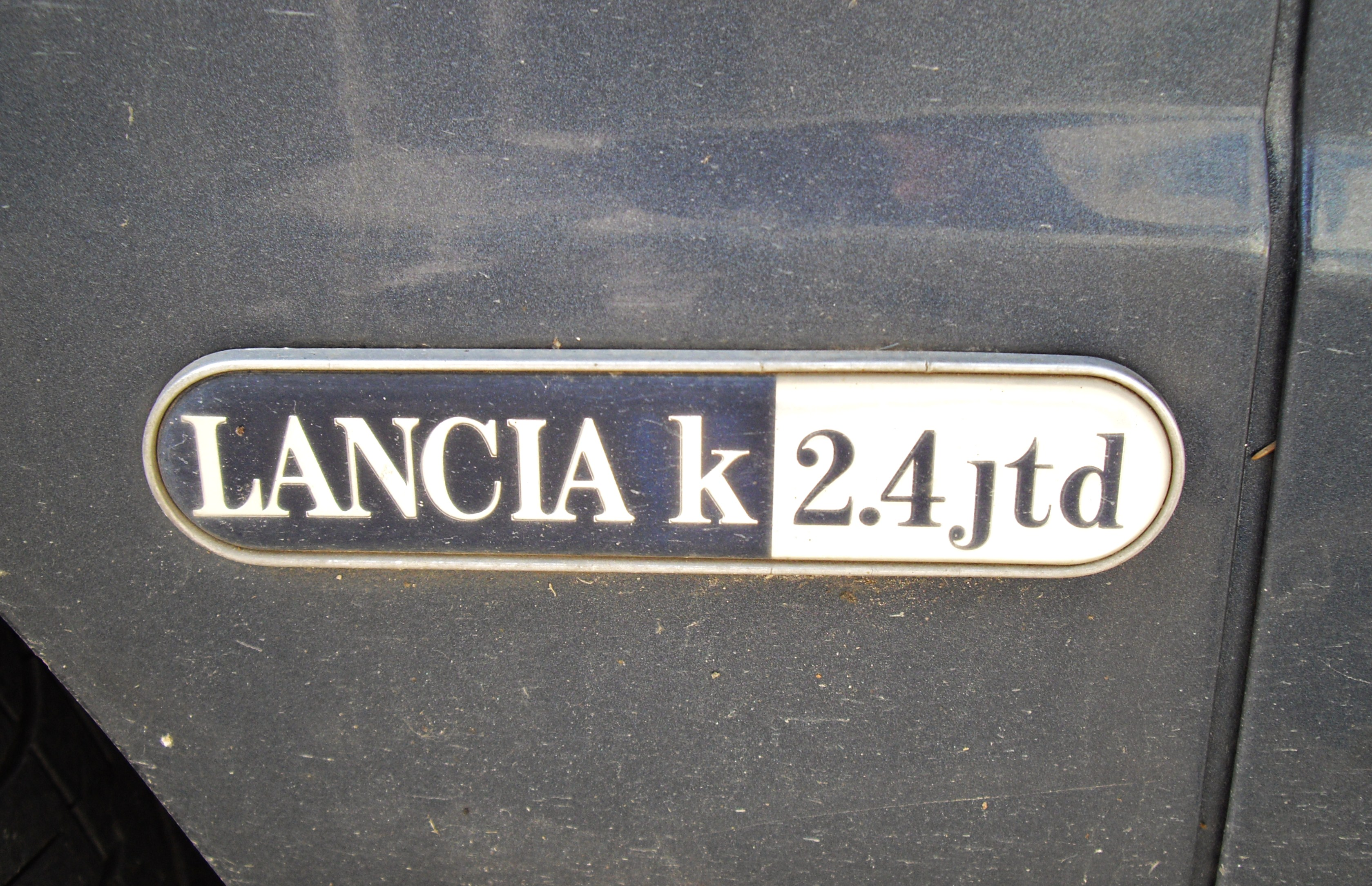 Lancia K badge